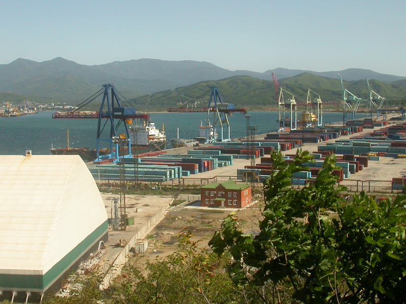 View of the container terminal at Vostochny Port near Vrangel, September 2003.